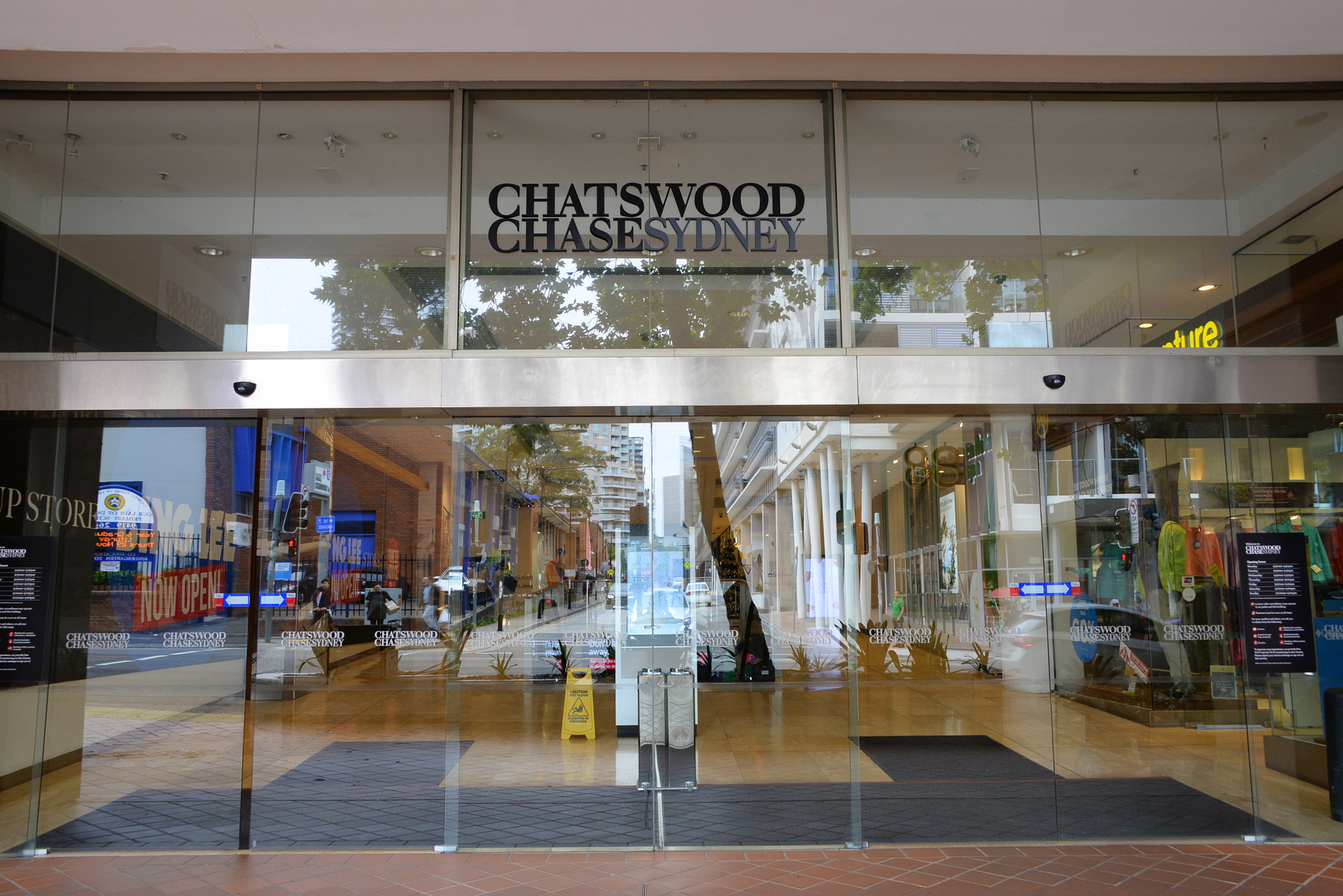 Archer Street entrance, Chatswood Chase, Chatswood, Sydney